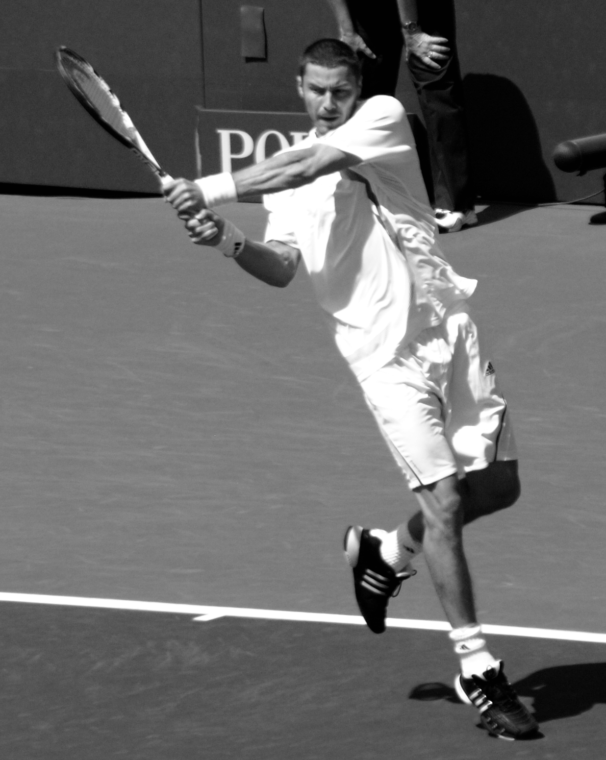 Marat Safin at the 2009 US Open